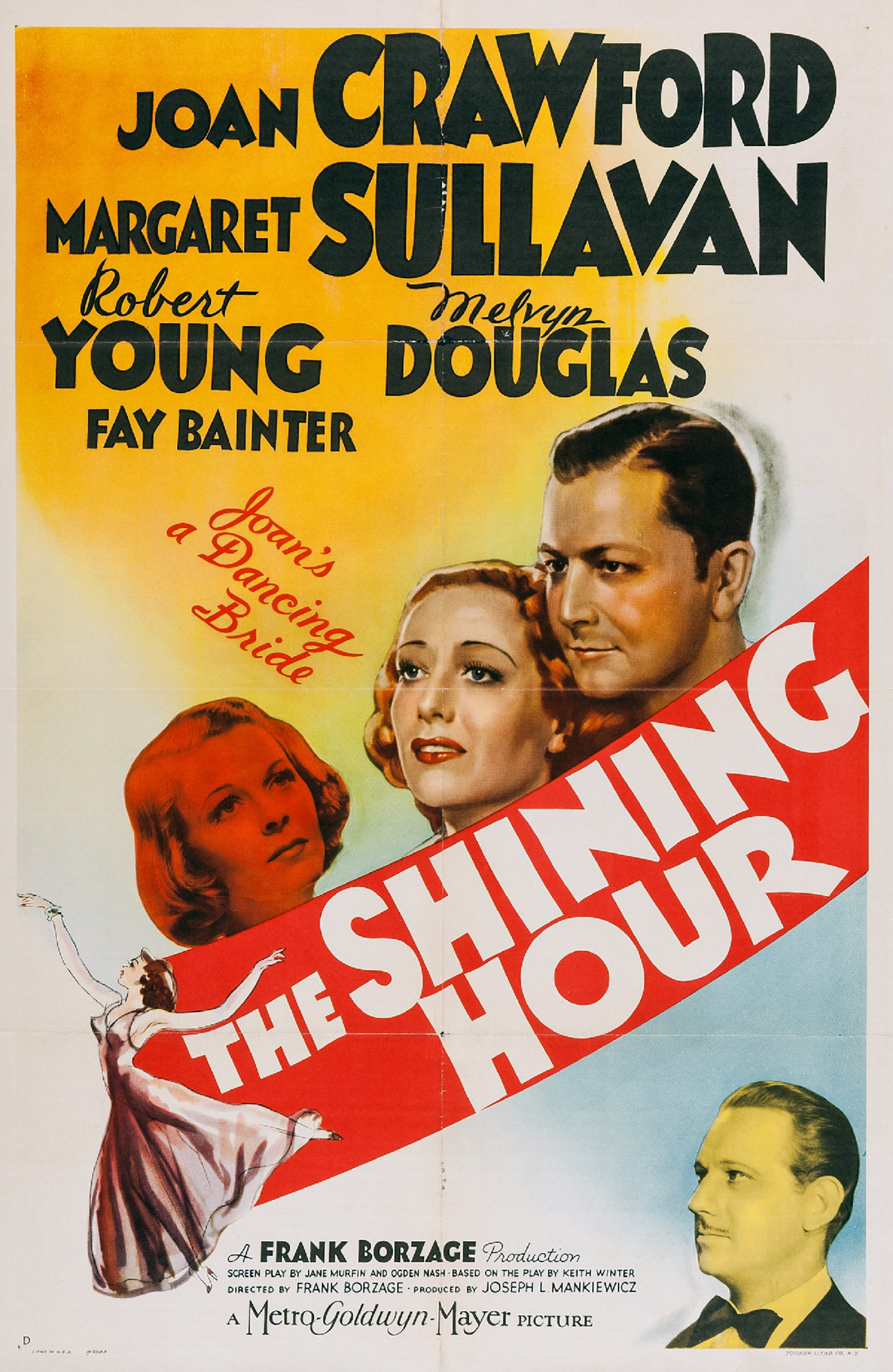 Poster for the American romantic drama film The Shining Hour (1938). There are no copyright marks. At bottom left is "D" (poster version "D"), Litho in USA #2585. At bottom right is Tooker Litho Co, NY-they printed the poster.